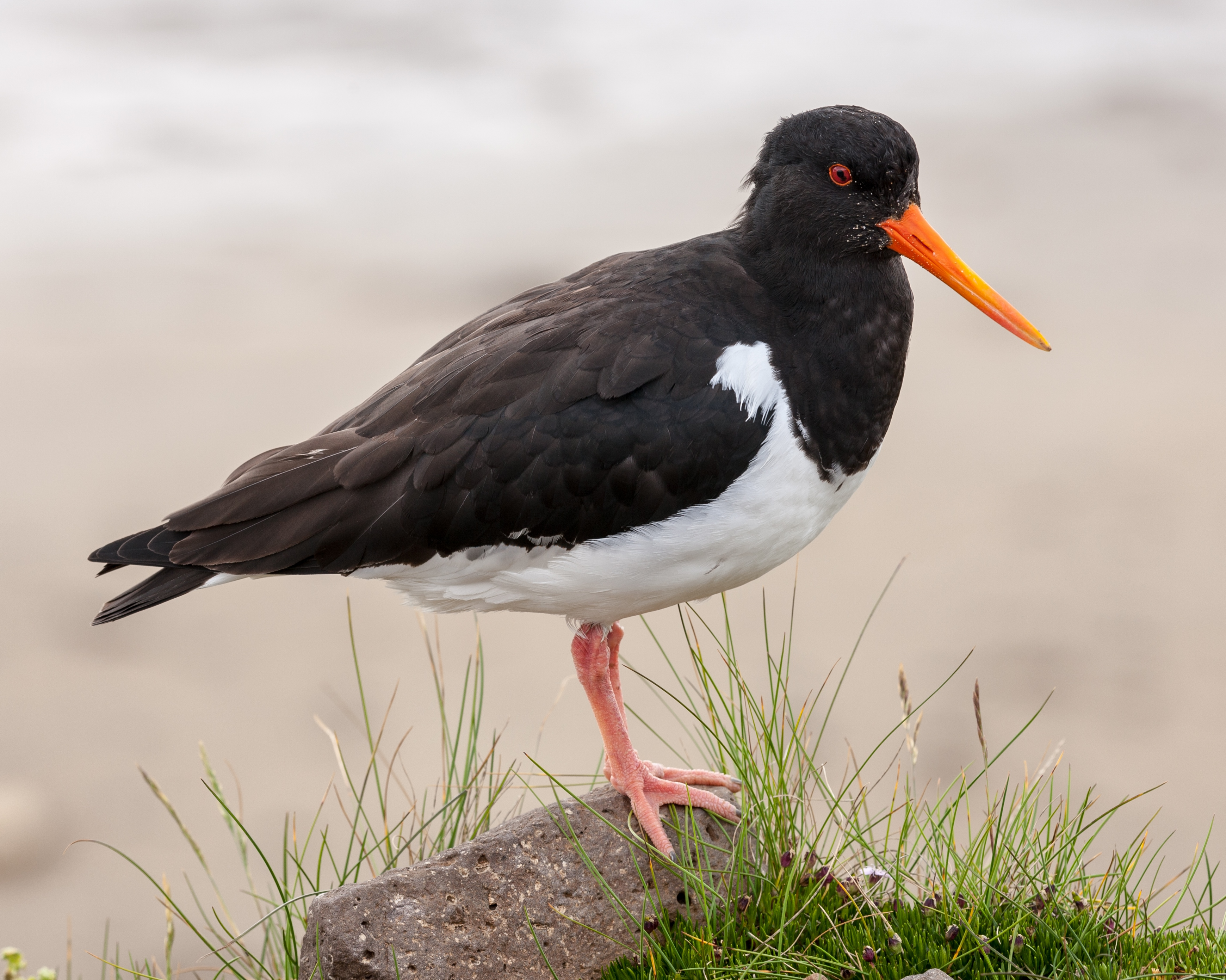 The Eurasian Oystercatcher (Haematopus ostralegus) also known as the Common Pied Oystercatcher, or (in Europe) just Oystercatcher, is a wader in the oystercatcher bird family Haematopodidae.